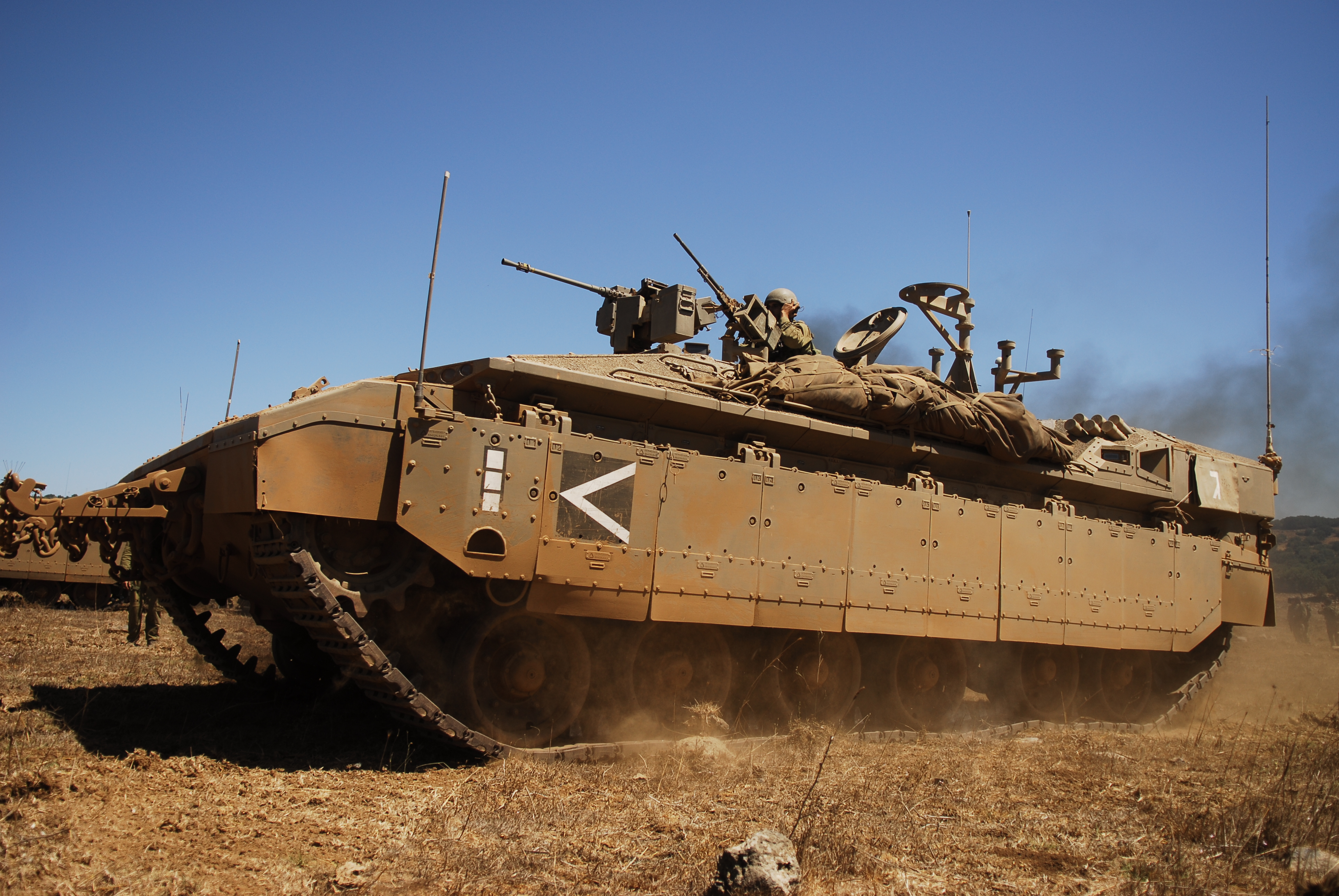 August 21, 2012 The 13th Battalion of the Golani Brigade during a drill held in the Golan Heights, northern Israel. The NAMER ("Tiger"), a new vehicle combining the artillery abilities of the Merkava tank and the APC's shielding capacities, was fully integrated in this drill for the first time, improving the battle tactics used by the IDF in the field. Photo by Staff Sgt. (res.) Abir Sultan The Israel Defense Forces Facebook • blog • Twitter